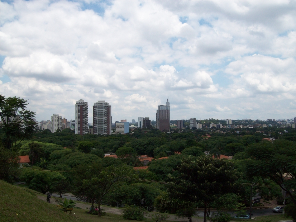 District of Alto de Pinheiros, in São Paulo City.